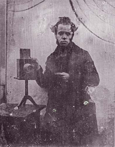 Autoportrait of M. V. Lobethal, 1846, daguerreotype (collection: Prácheň muzeum)